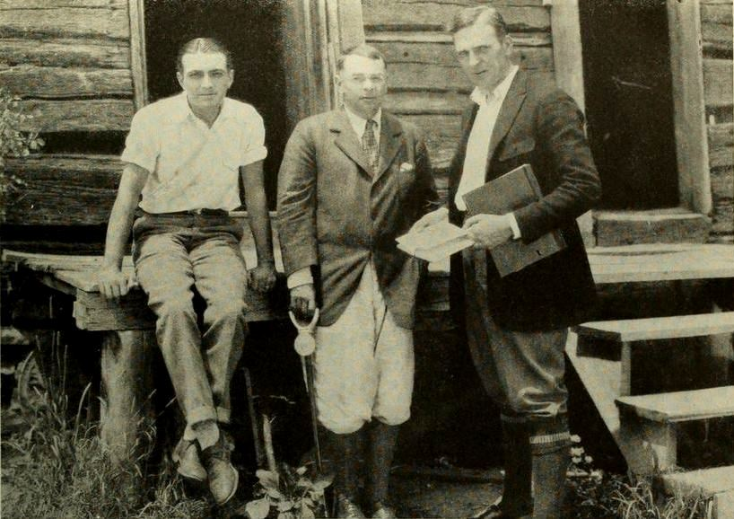 Still from the production of the American film Tol'able David (1921) with Richard Barthelmess, author Joseph Hergesheimer, and director Henry King, page 61 of the December 1922 Photoplay.